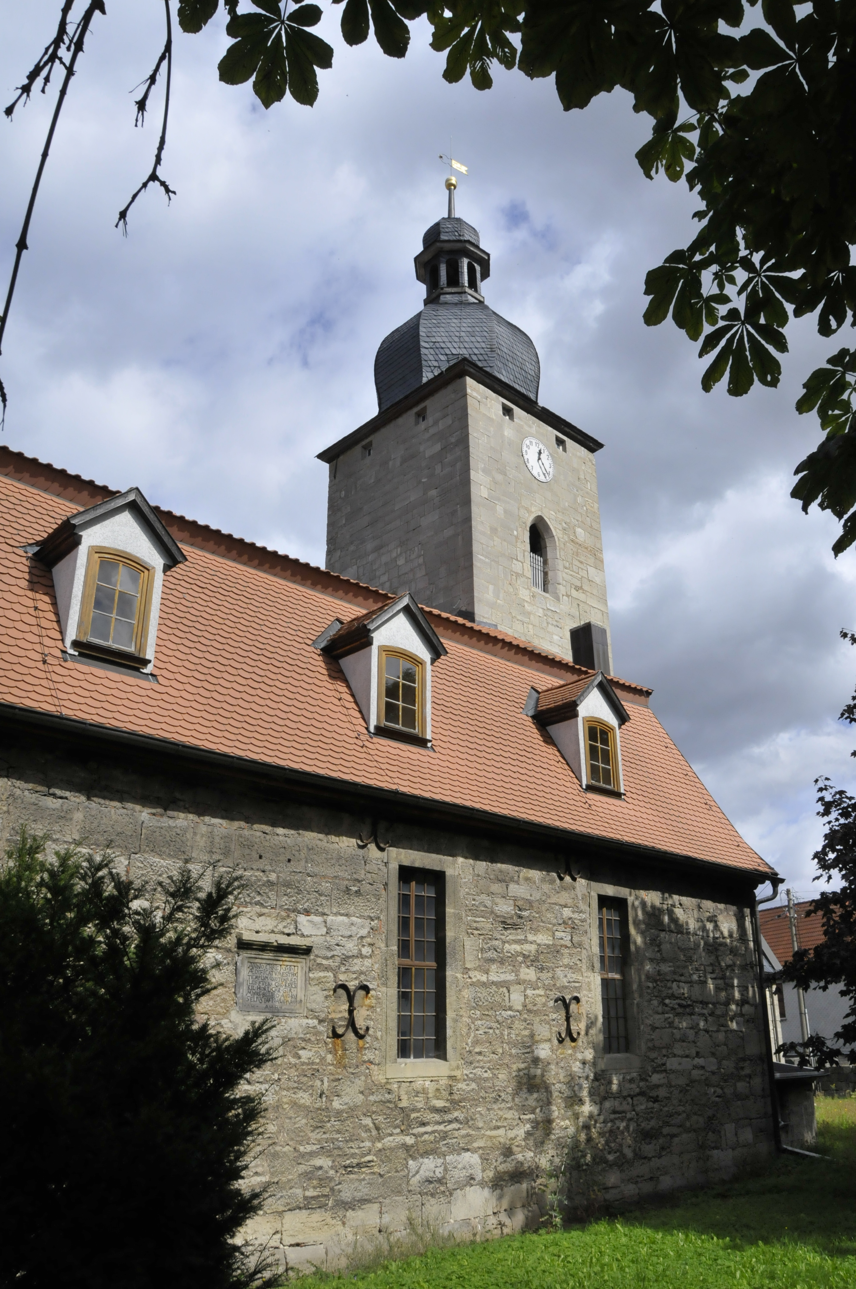 Gossel, church